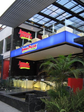 Fotografia de la pizzeria de Nutibara en la ciudad de Medellín, Colombia.